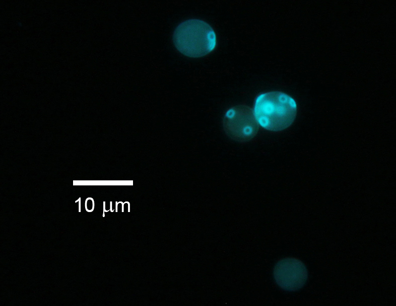 Fluorescence microscopy, Calcofluor white staining, Baker`s Yeast